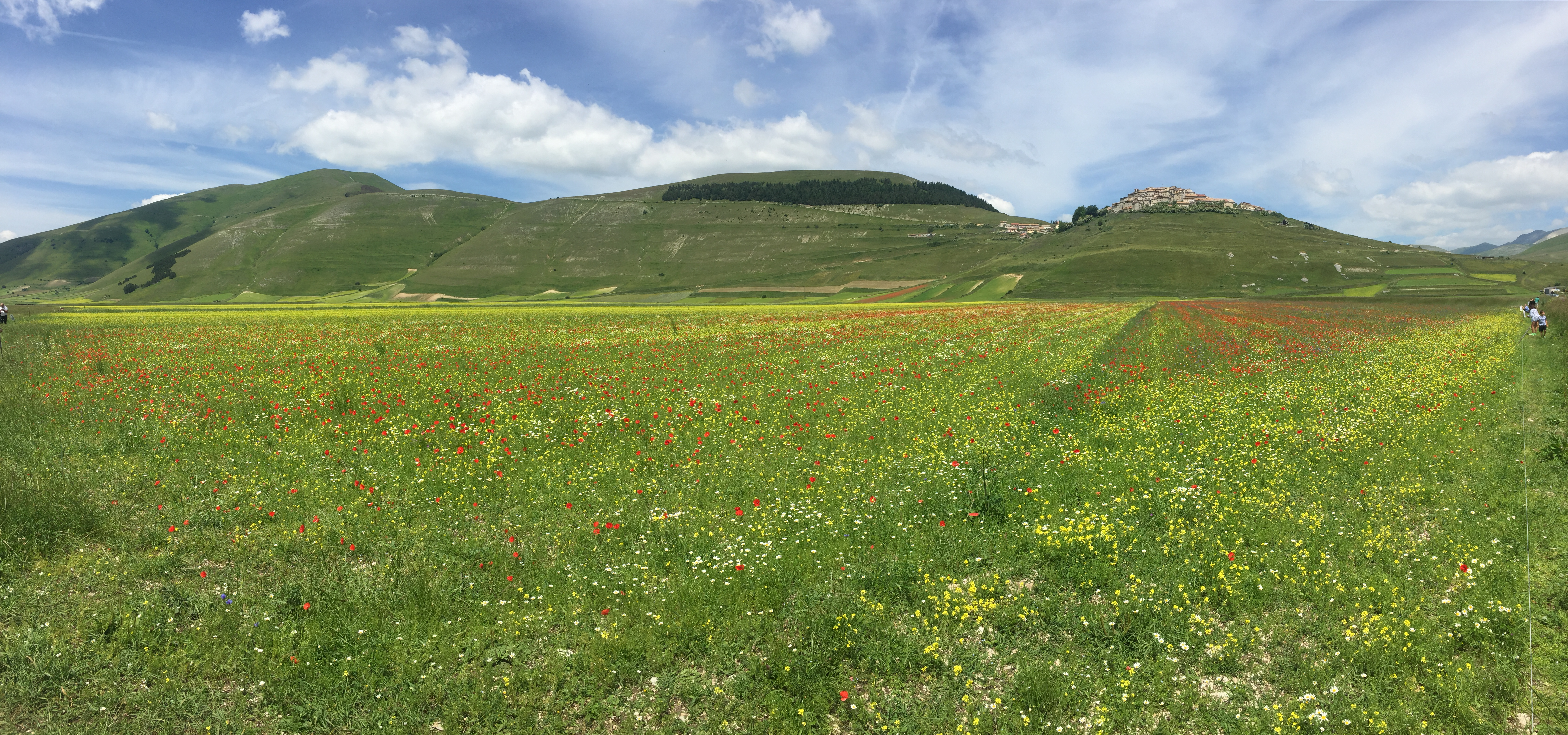 Lentil and poppy blooming near Castelluccio (Norcia) on the Sibillini Mountains|.